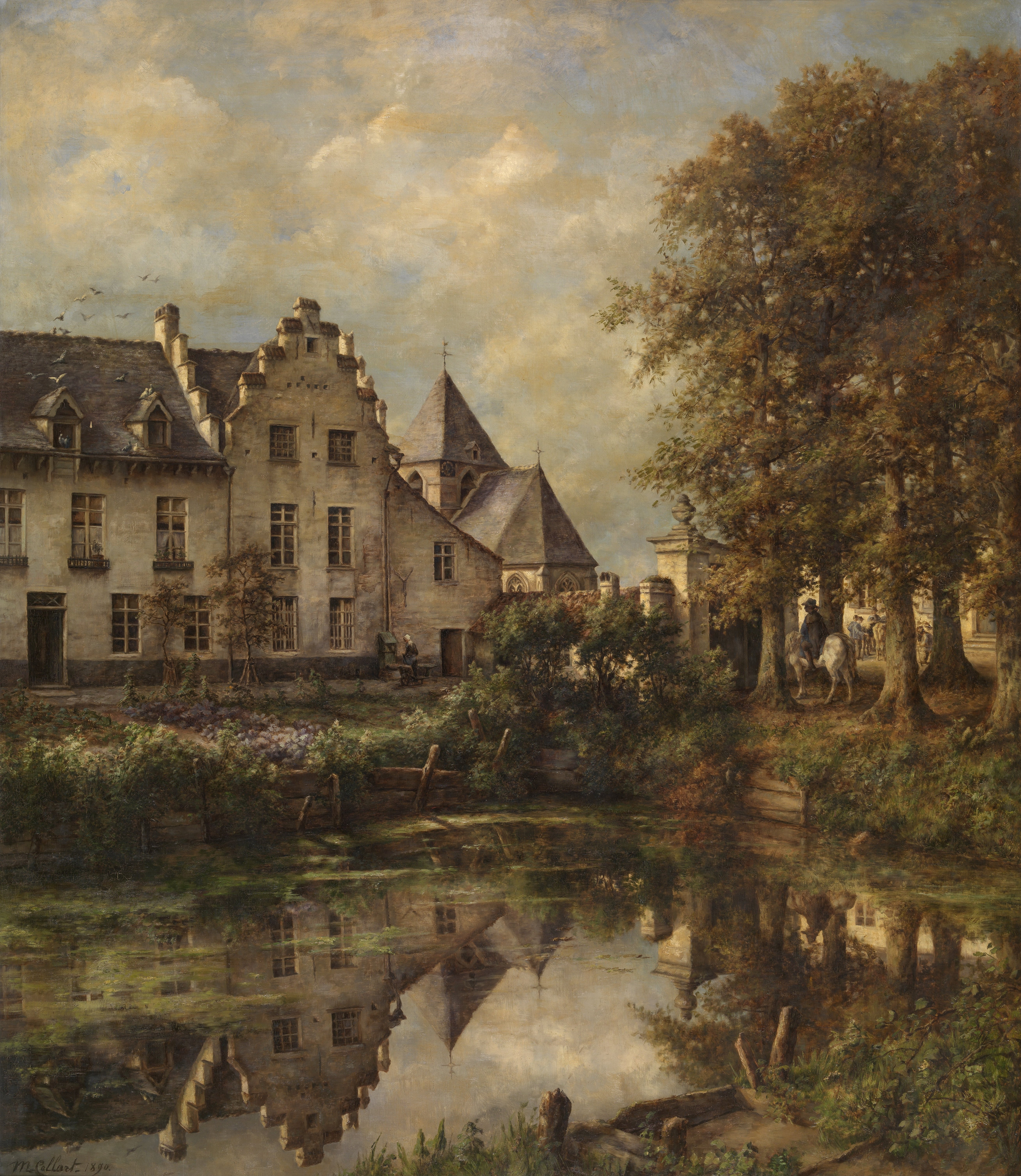 Marie Collart-Henrotin: Hofstede in Brabant, 1890 Royal Museum of Fine Arts Antwerp Native nameKoninklijk Museum voor Schone Kunsten AntwerpenLocationAntwerp, BelgiumCoordinates51° 12′ 29.99″ N, 4° 23′ 40.99″ E Established11 August 1890Web page control : Q1471477 ISNI: 0000 0004 0608 5287 LCCN: n80093417 WorldCat institution QS:P195,Q1471477 Inventory number 1249